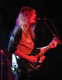 BEGIN PGP SIGNED MESSAGE----- Hash: SHA1 Image Photo taken by Jeroen Massar ( at the Opeth concert in De Boerderij, Zoetermeer, The Netherlands on 2005-12-22. Released to the Public Domain so that, amongst others, Wikipedia can benefit from it. Text signed by my PGP key as proof of copyleft. -----BEGIN PGP SIGNATURE----- Version: GnuPG v1.4.6 (GNU/Linux) Comment: Jeroen Massar / iD8DBQFG5GWCKaooUjM+fCMRAtHGAKChWUYKh95BzeLSjDBkxeZveCOpXACgot/m PIvvtOn2L7mQXRwqYXEcDGs= =QBGt -----END PGP SIGNATURE----- Category:Opeth